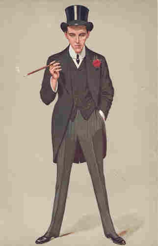 Caricature of F.E. Smith (later Earl of Birkenhead). Caption reads "A Successful First Speech ("Moab is my Washpot")". (This refers to Psalm 108).